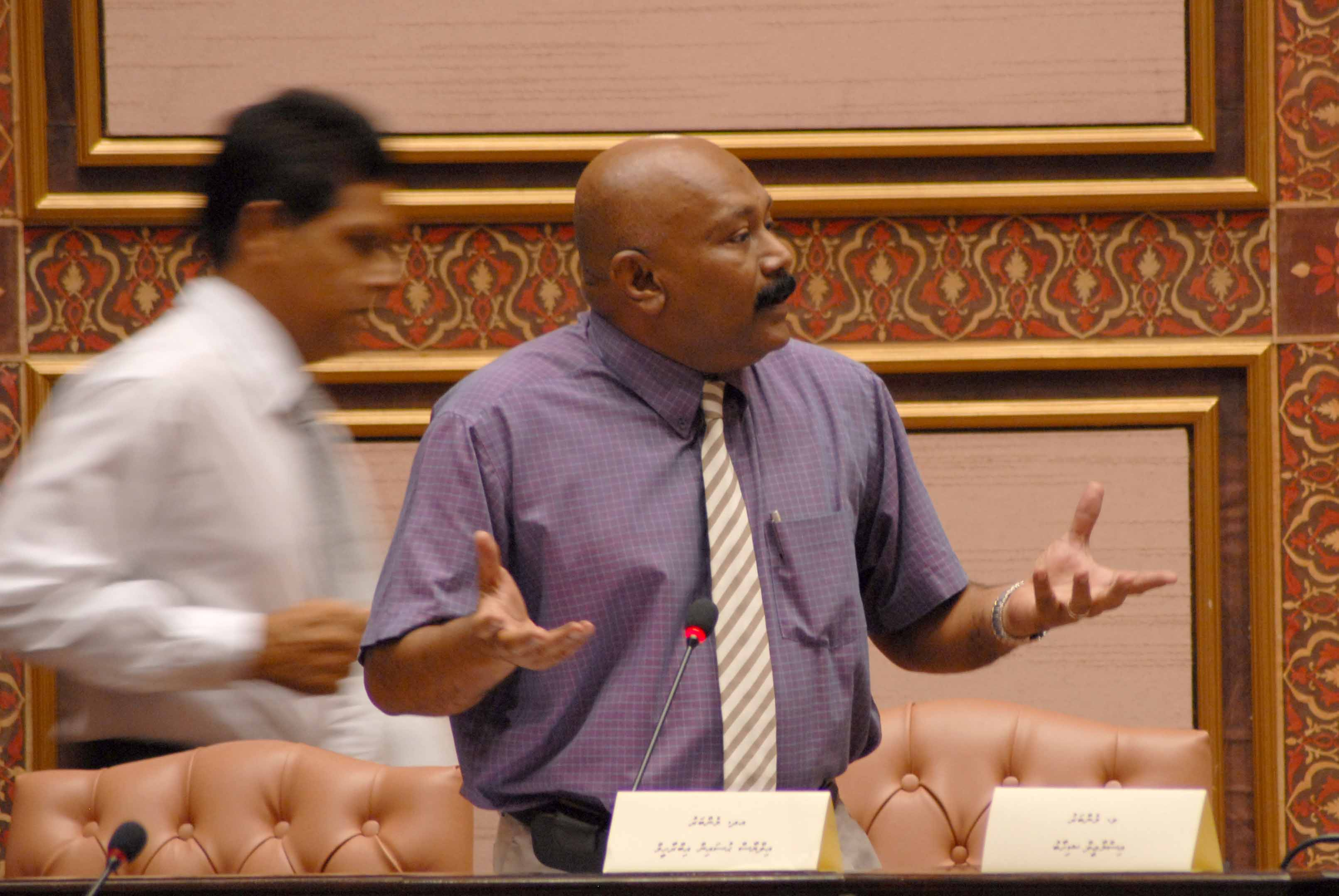 Represent A.DH Atoll